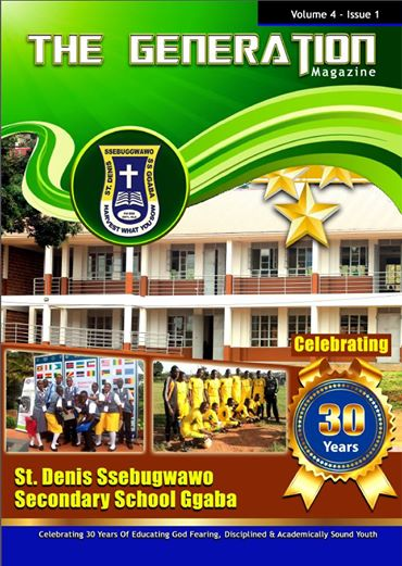 the school celebration of 30 years of existance